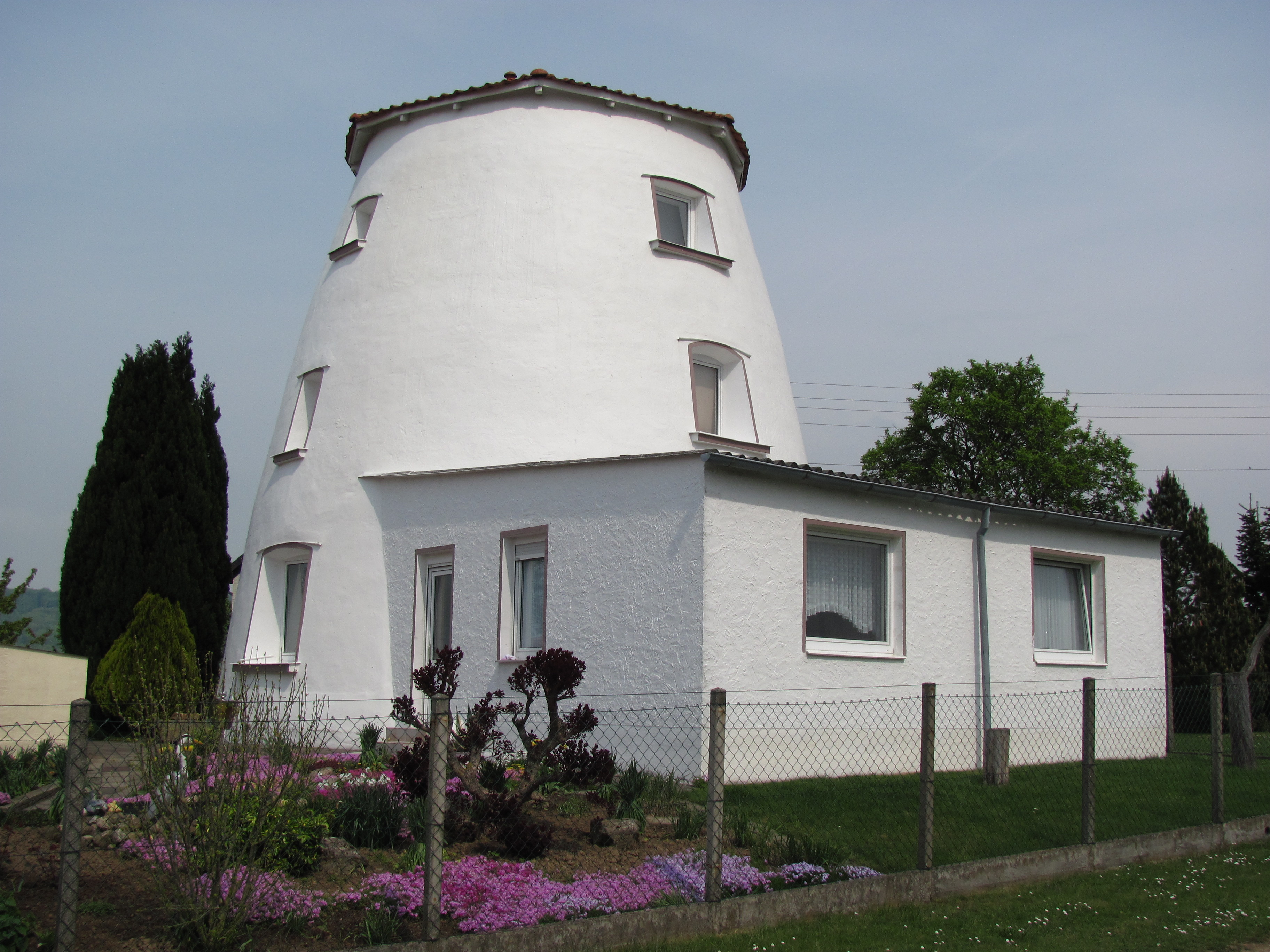 Former mill, Bad Salzdetfurth-Lechstedt, Lower Saxony, Germany.